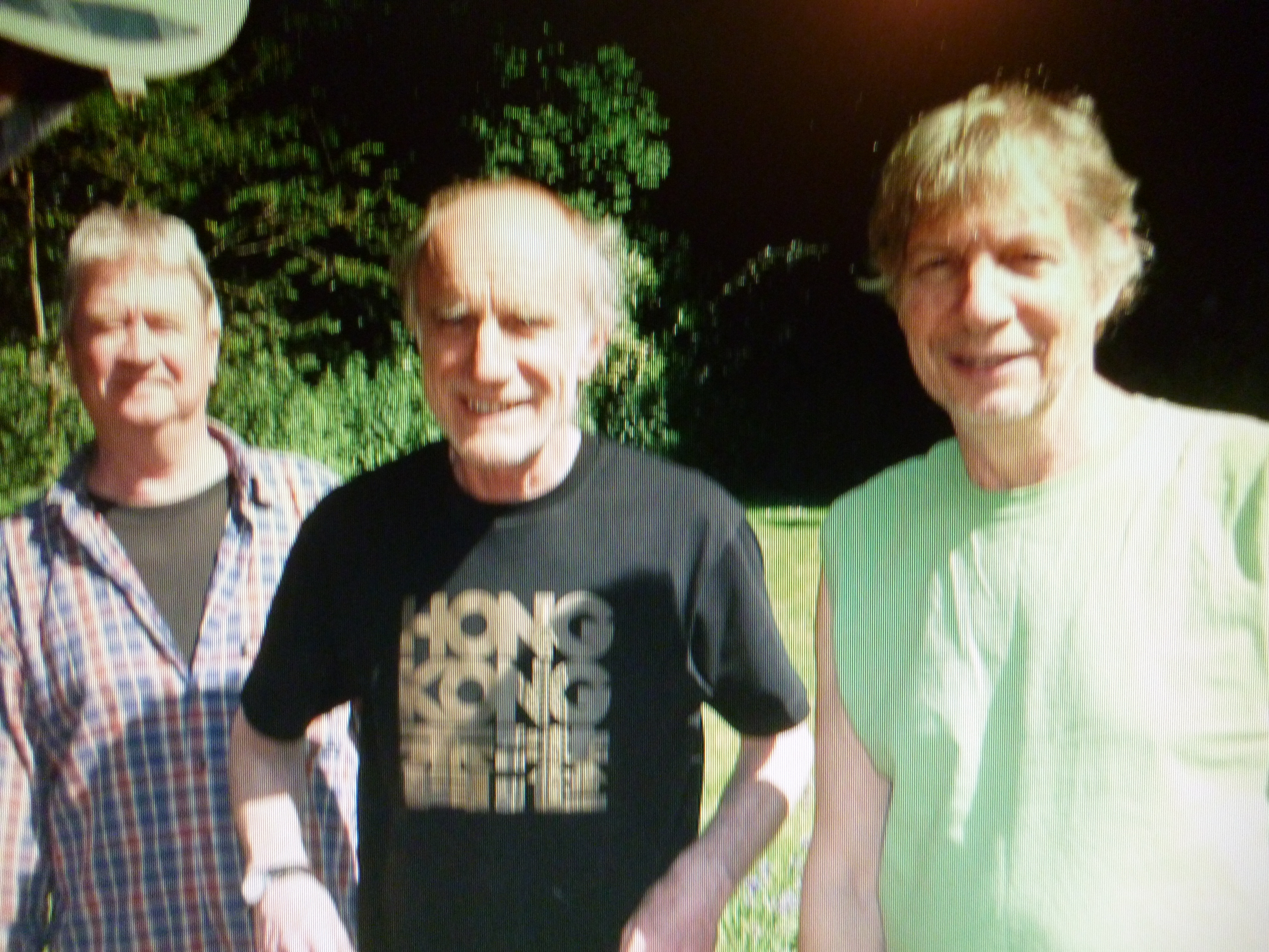 Photo of Bob Rafkin 2012